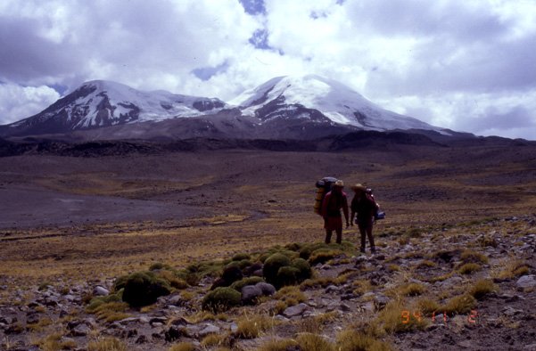 Coropuna